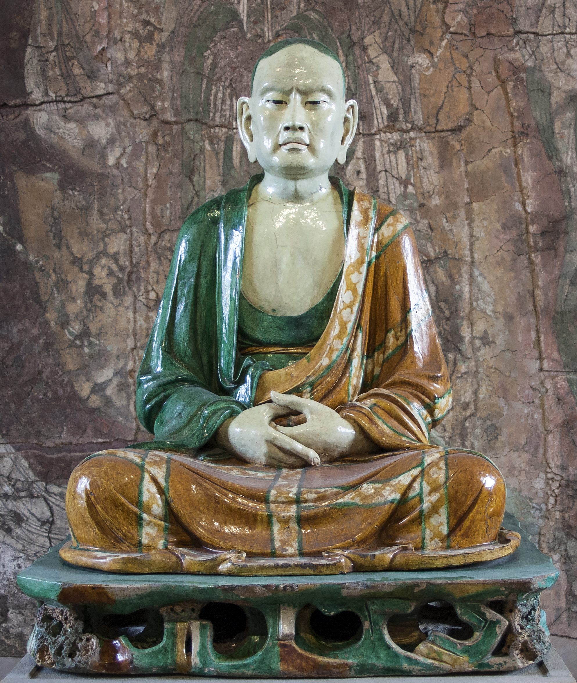 A luóhàn (arhat), found at Yixian, Hebei province, Liao dynasty.